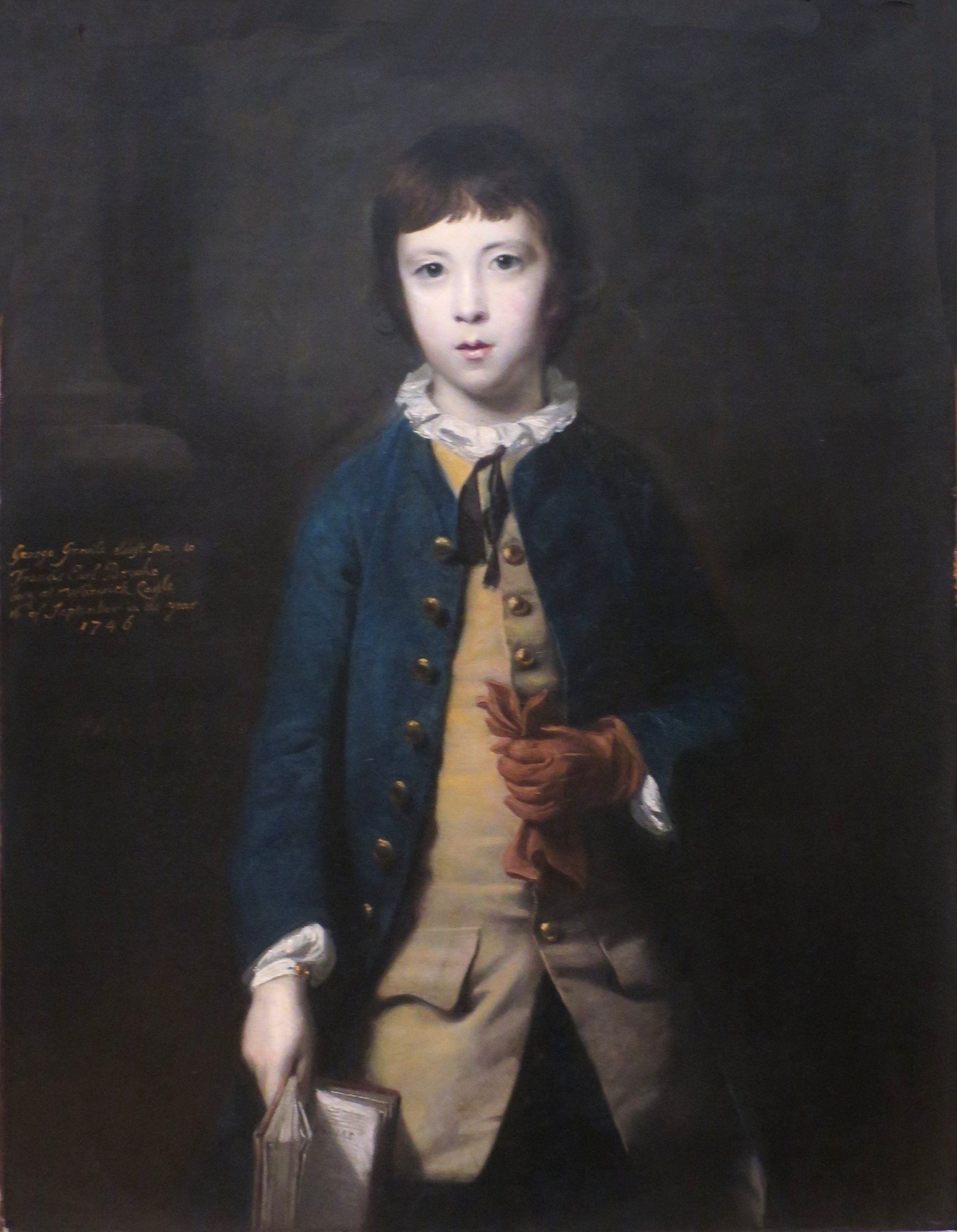 George Greville, later second Earl of Warwick by Joshua Reynolds, 1755, oil on canvas, private collection, photographed while on loan to the Metropolitan Museum of Art